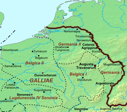 Low resolution map in plate caree projection with modern coastline of the Roman provinces of Germania Prima (Germania I), Germania Secunda (Germania II), Belgica Prima (Belgica I) and Belgica Secunda (Belgica II) around 400 AD.